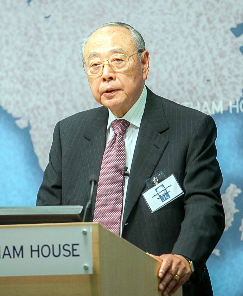 Ambassador Hiroaki Fujii, Chairman, Mori Arts Center; Japanese Ambassador to the UK (1994-97) UK-Japan Global Seminar: Fostering Strategic Partnerships, 20 June 2013 cht.hm/135ZVyl